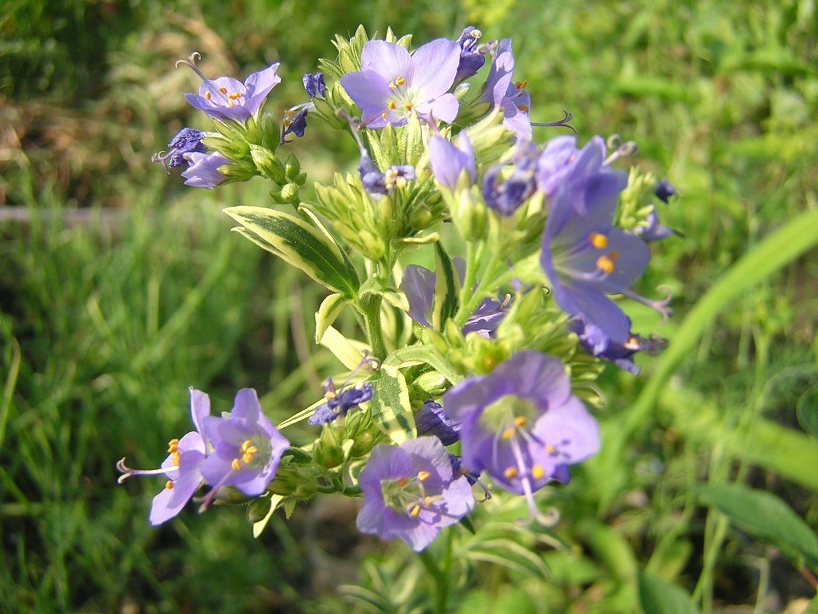 Polemonium caeruleum. Savinsky District of Ivanovo Oblast, Russia